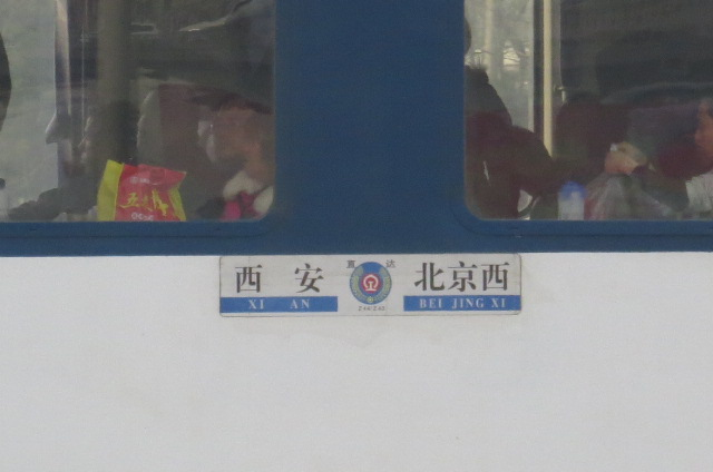 Xi'an to Beijing via Yan'an.